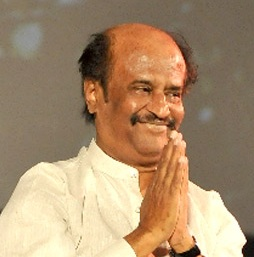 Rajinikanth at the audio release of 'Kochadaiiyaan'